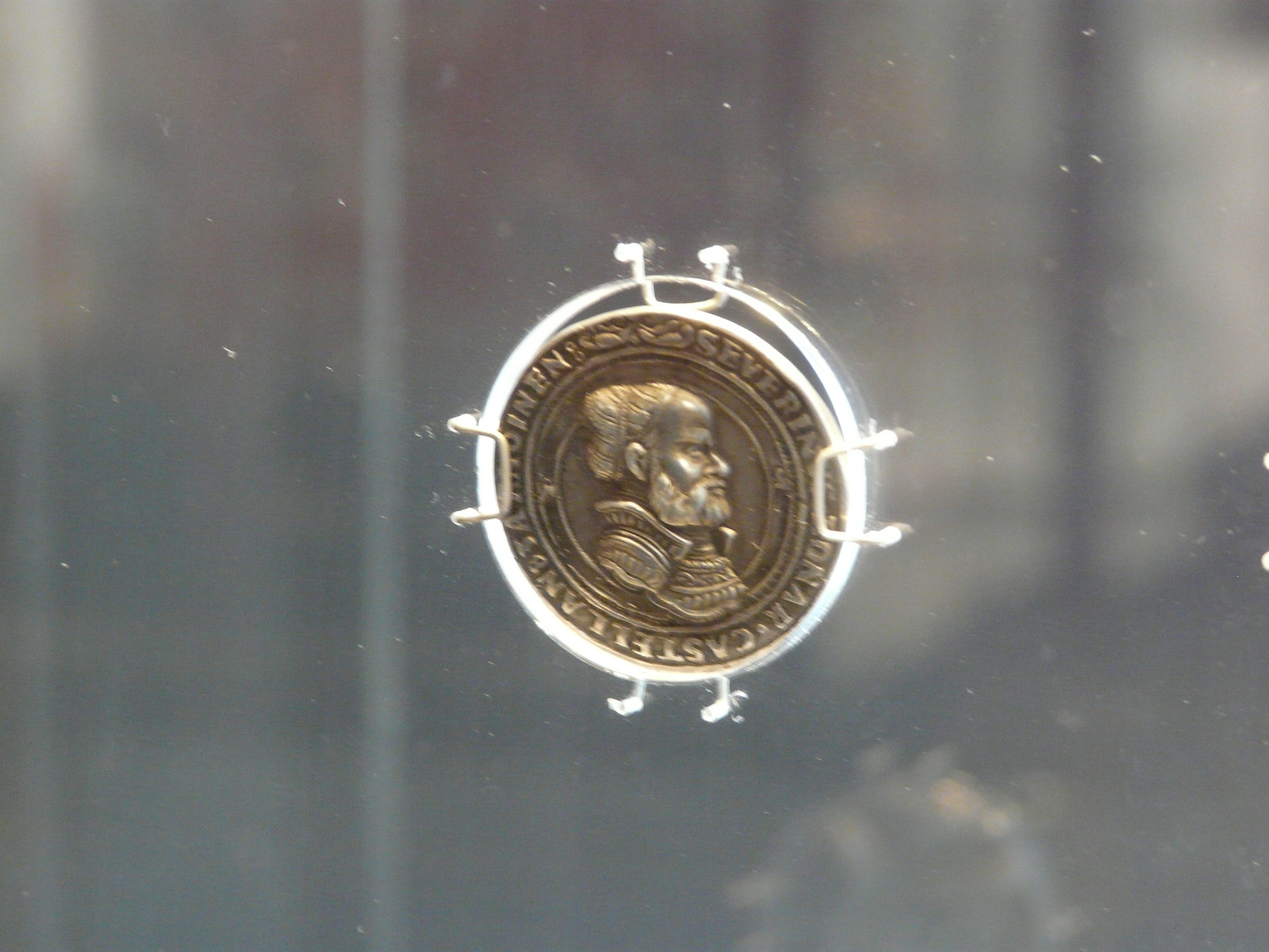 From the collection of the National Museum in Poznań. Seweryn Boner, 1533